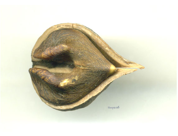 Lancaster nut (Juglans cinerea hybrid with Juglans ailantifolia var. cordiformis). Moscow.